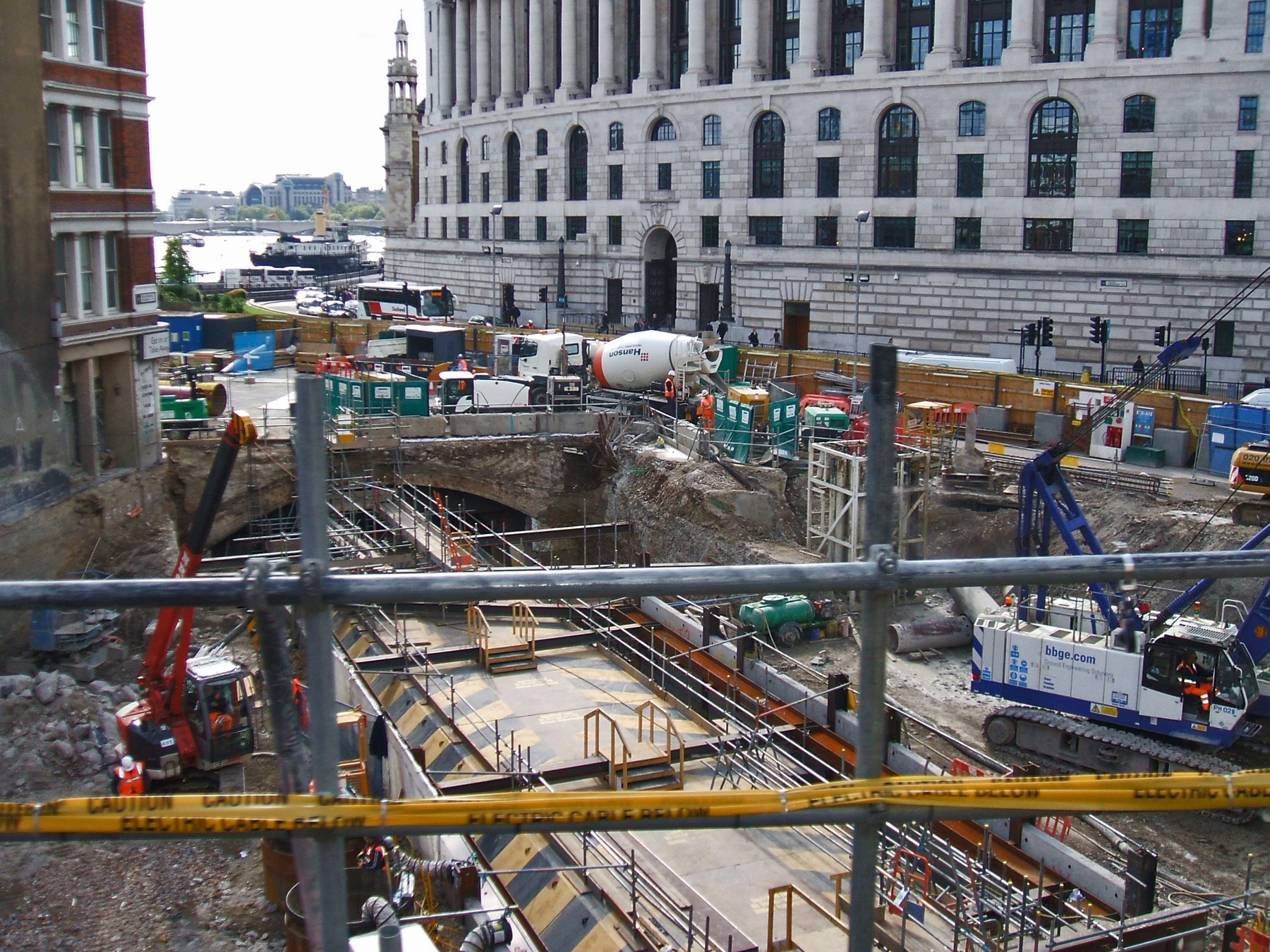 Blackfriars Underground station work site during the Thameslink Programme rebuilding (seen from platform 5 of Blackfriars mainline station).